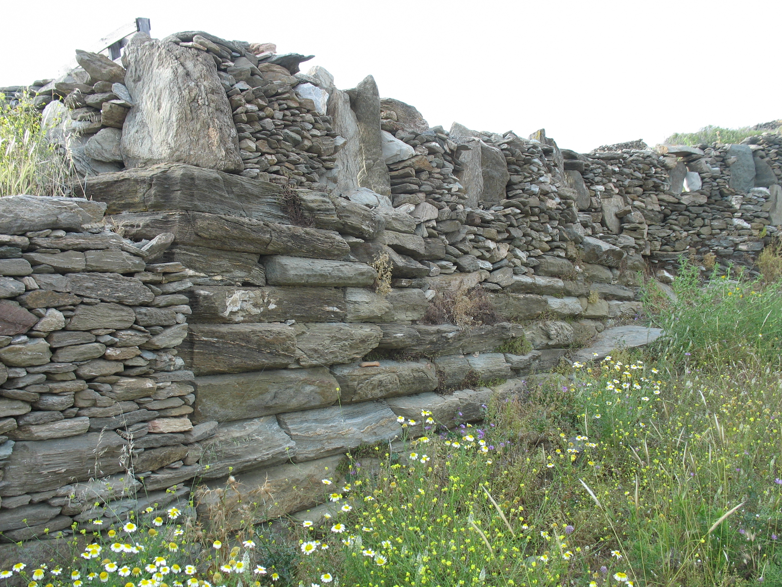 Stone walls with ancient stonework